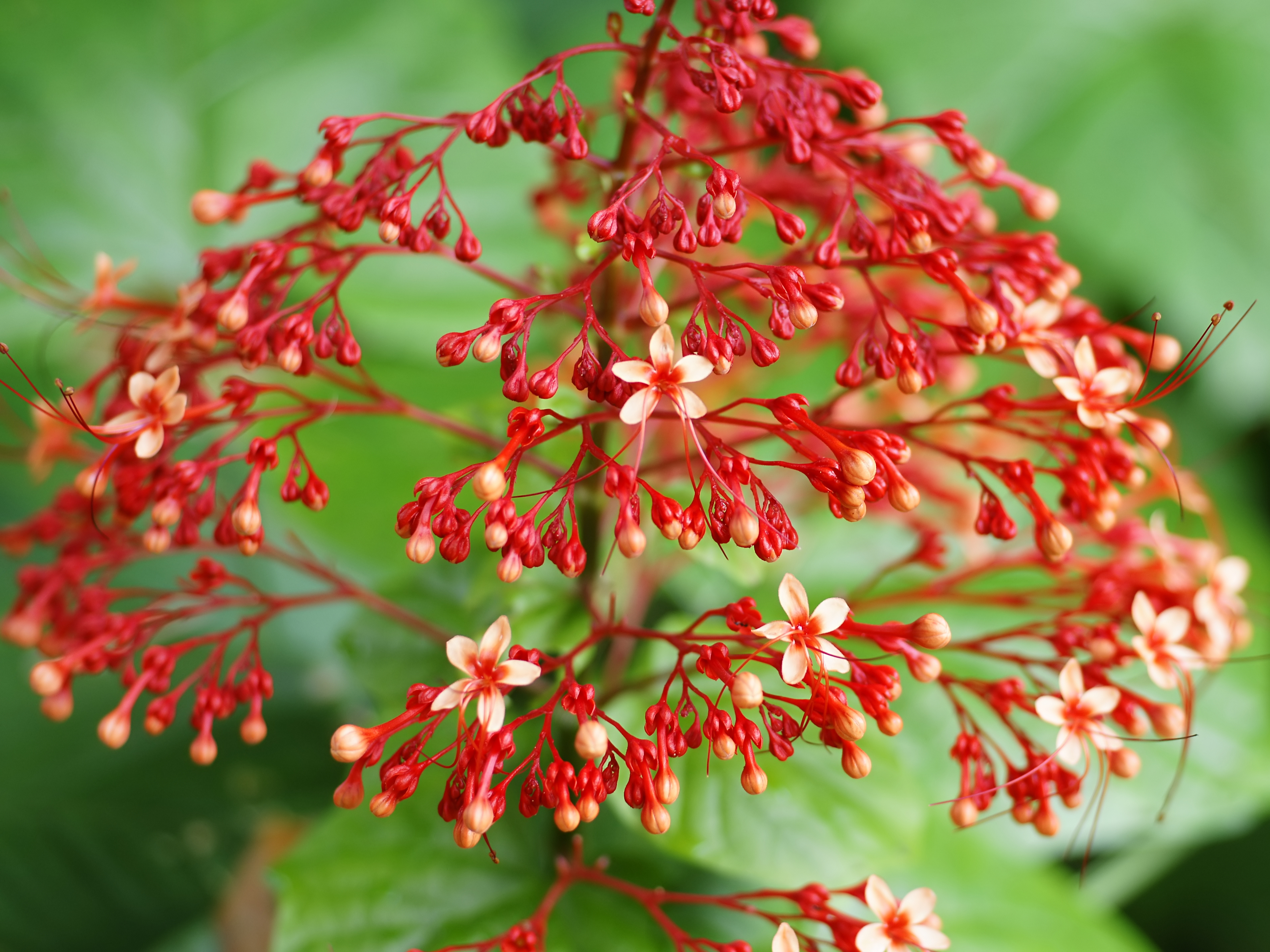 Pagoda flower near Puerto Viejo de Sarapiqui, Costa Rica